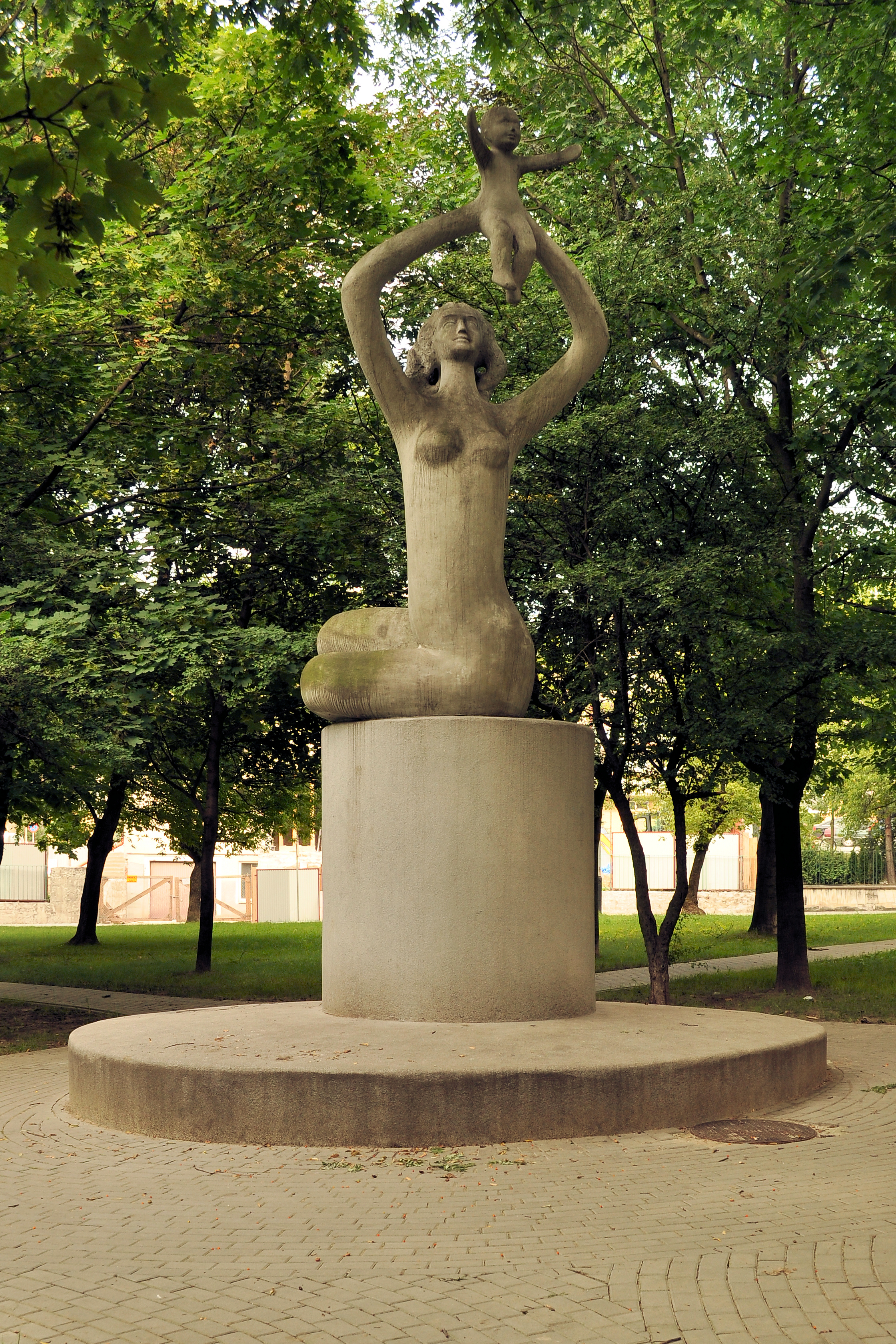 "Radość życia" sculpture, statue-maker: Henryk Burzec